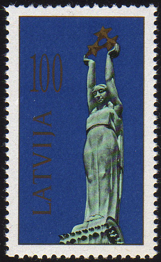 Postage stamp issued by Latvia 1991 depicting fragment view of monument in Riga, Latvia.